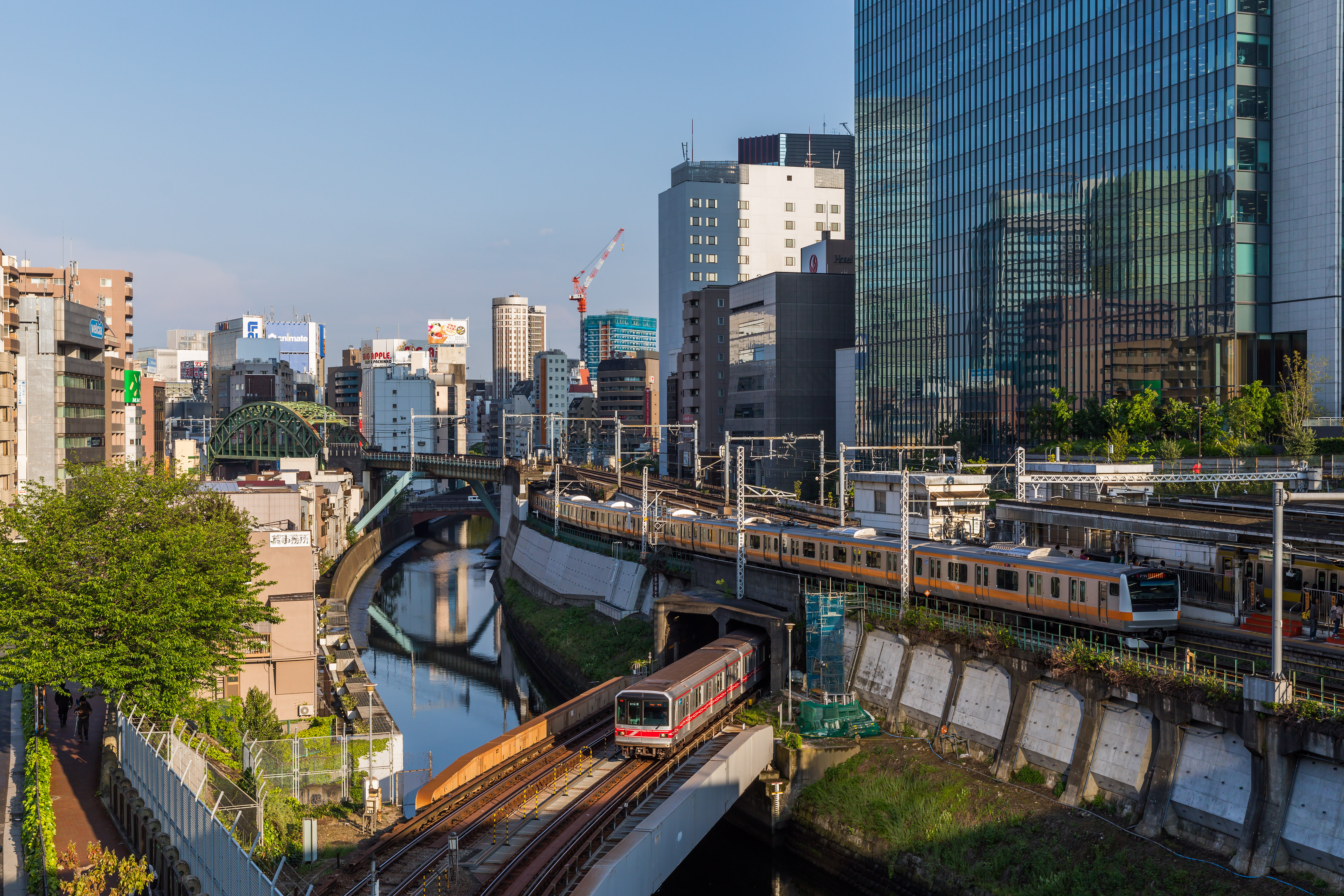 Tokyo Metro 02 series nr. 618 (below) on the Marunouchi Line crosses the Kanda river, while, above, a E233 set of JR East on the Chuo main line just leaves Ochanomizu. If you look closely, you can also spot a E231 set of JR east on the Sobu line, behind the platform. Photo taken at Ochanomizu, Tokyo, Japan.